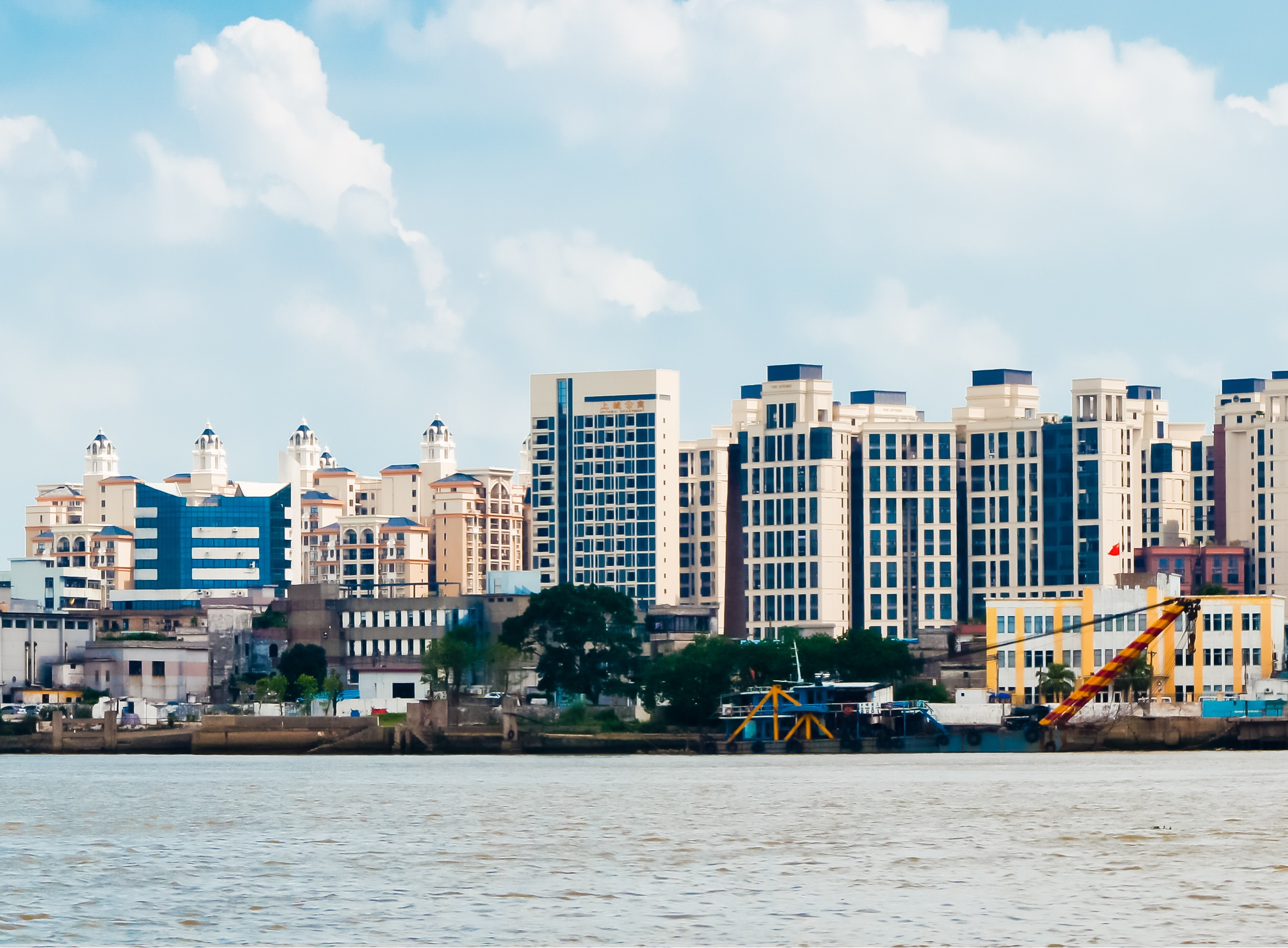 Skyline of Ronggui, Shunde District, Foshan.